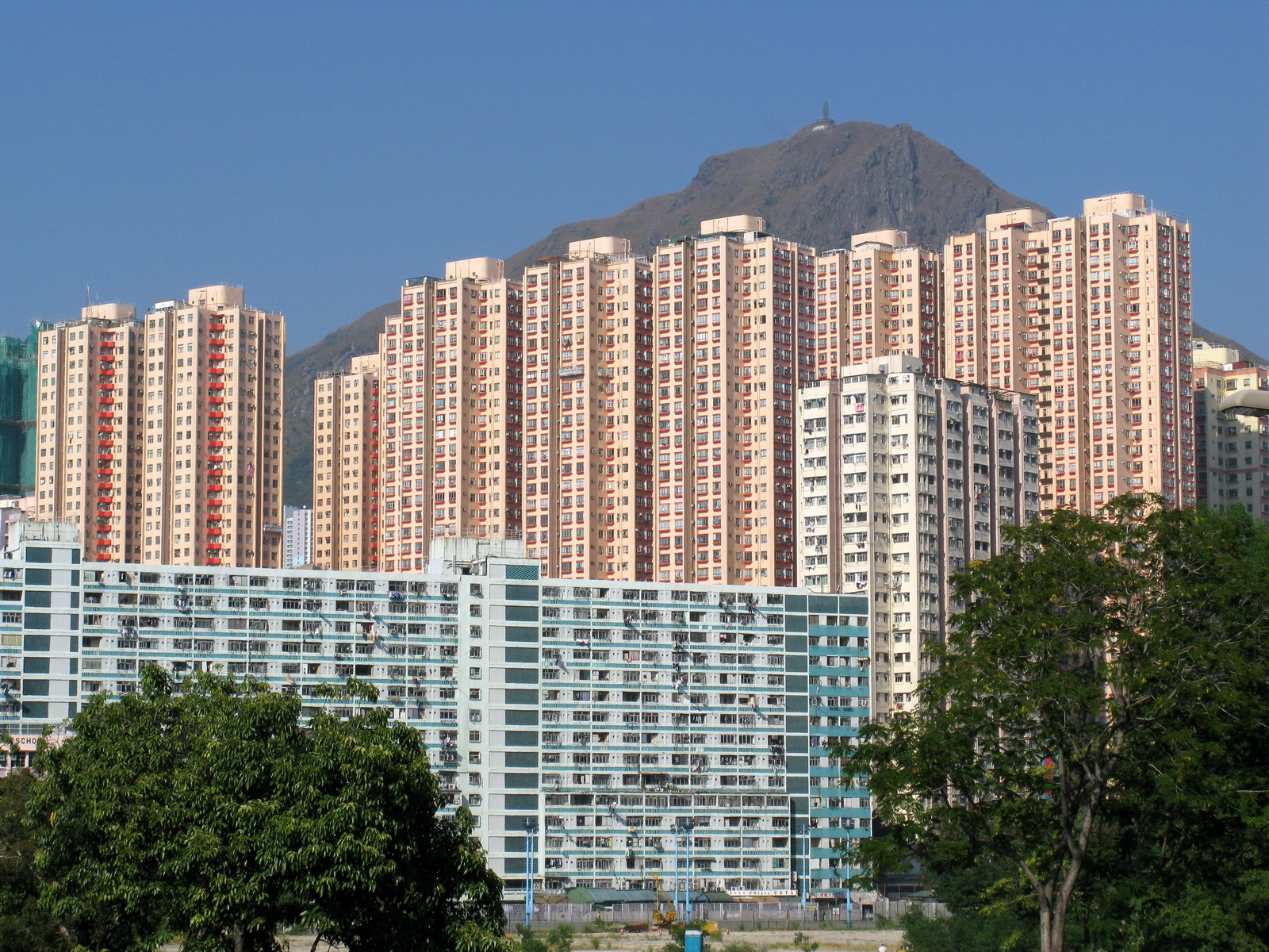 淘大花園 Amoy Gardens (background) and Lower Ngau Tau Kok Estate (foreground)